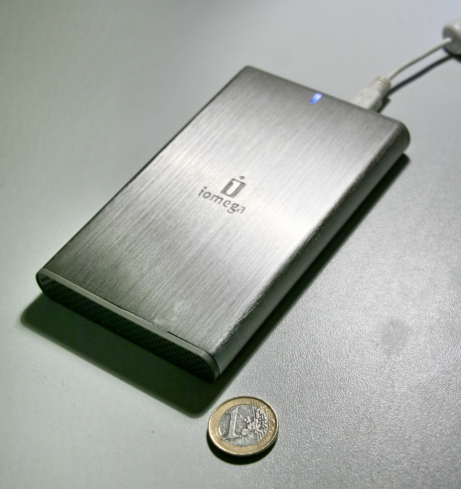 Iomega Prestige Portable Hard Drive 500GB